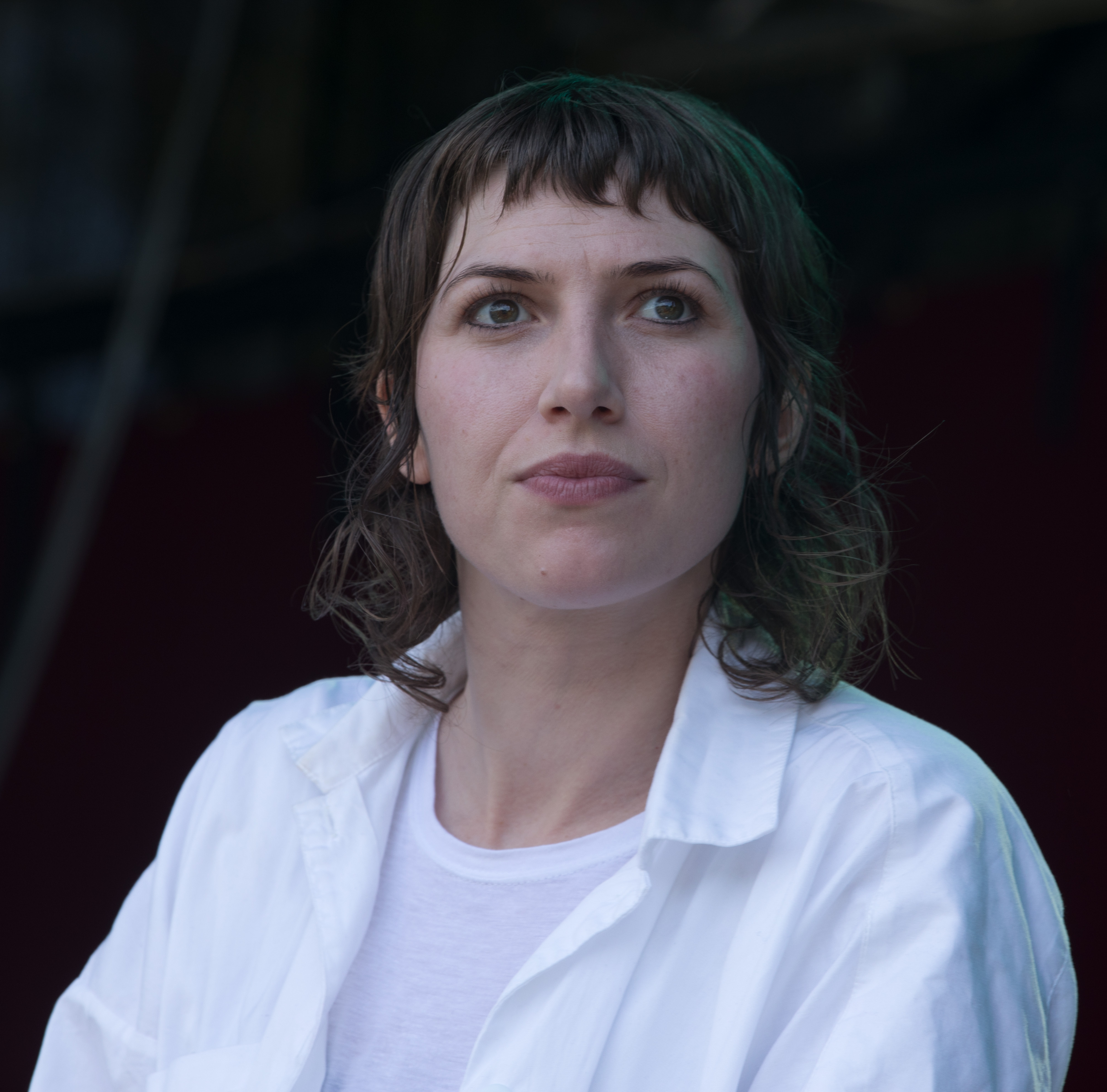 Aldous Harding performing at Fairgrounds Festival 2017 (Berry, New South Wales, Australia). Taken on December 9, 2017.